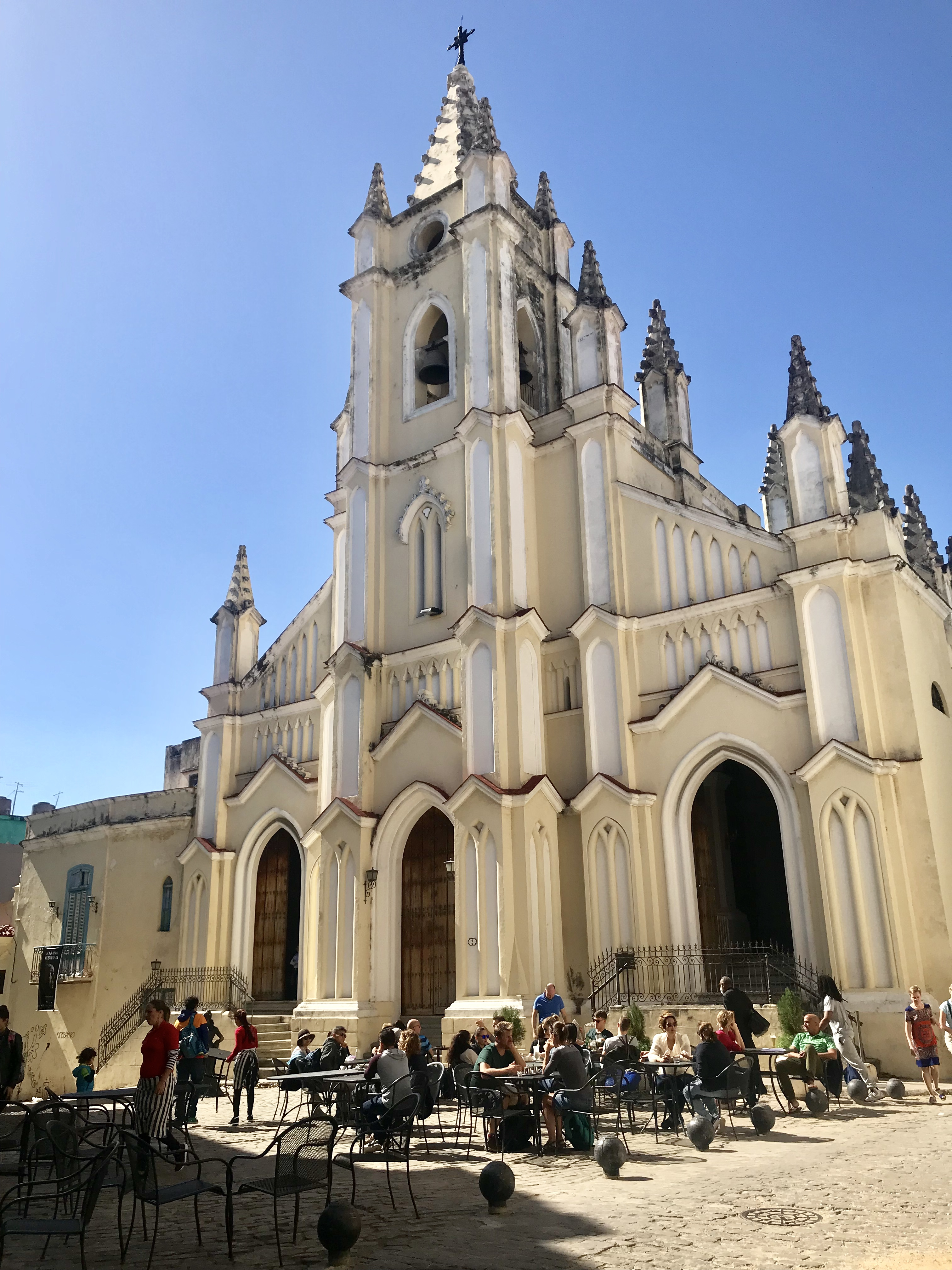 Santo Angel Church in Old Havana